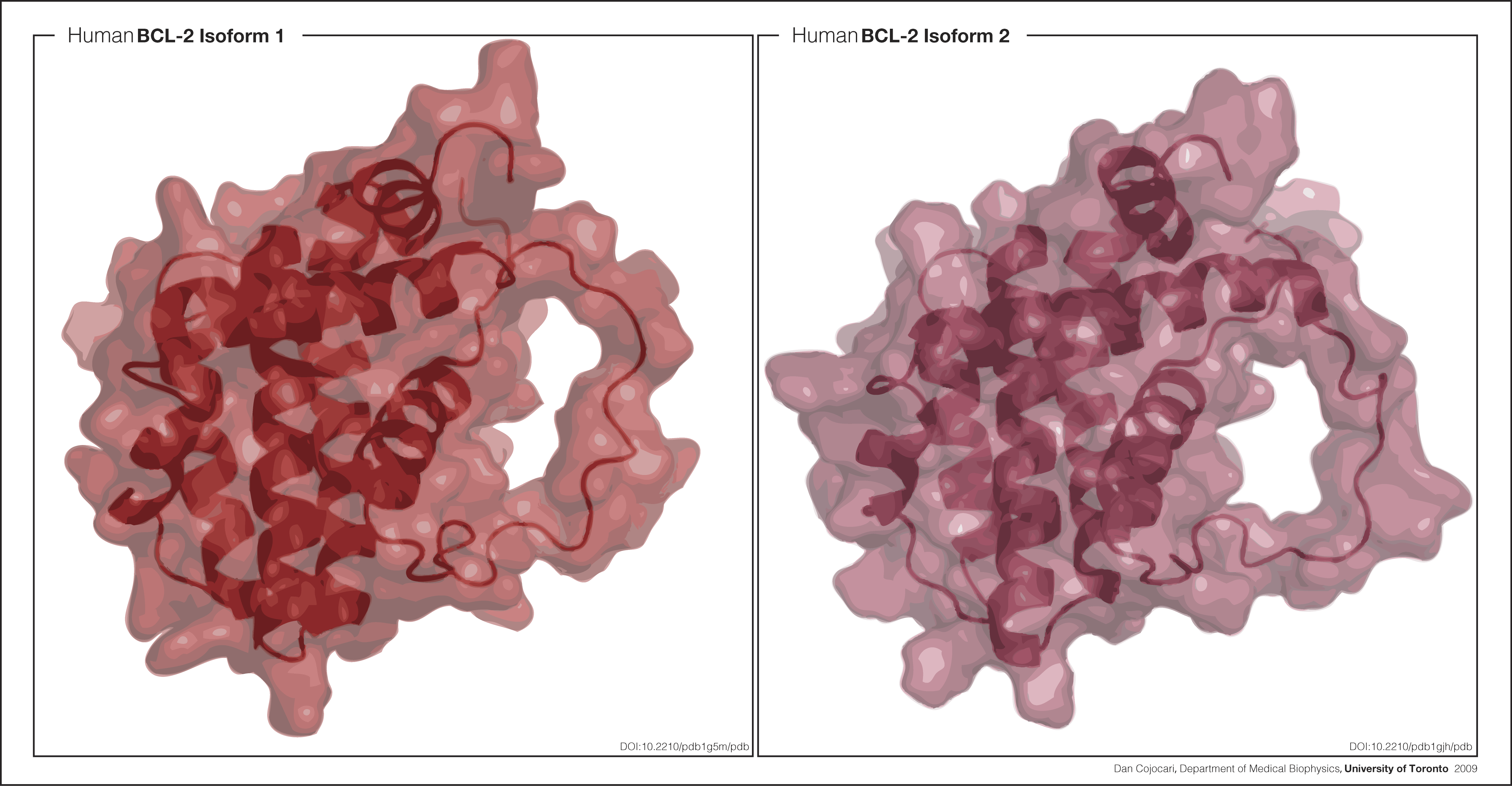 BCL-2 human isoforms